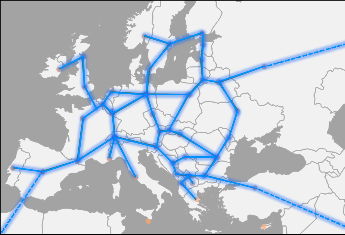 These are the posible routes of hyperloop that will be in Europe when the hole standarization process is completed